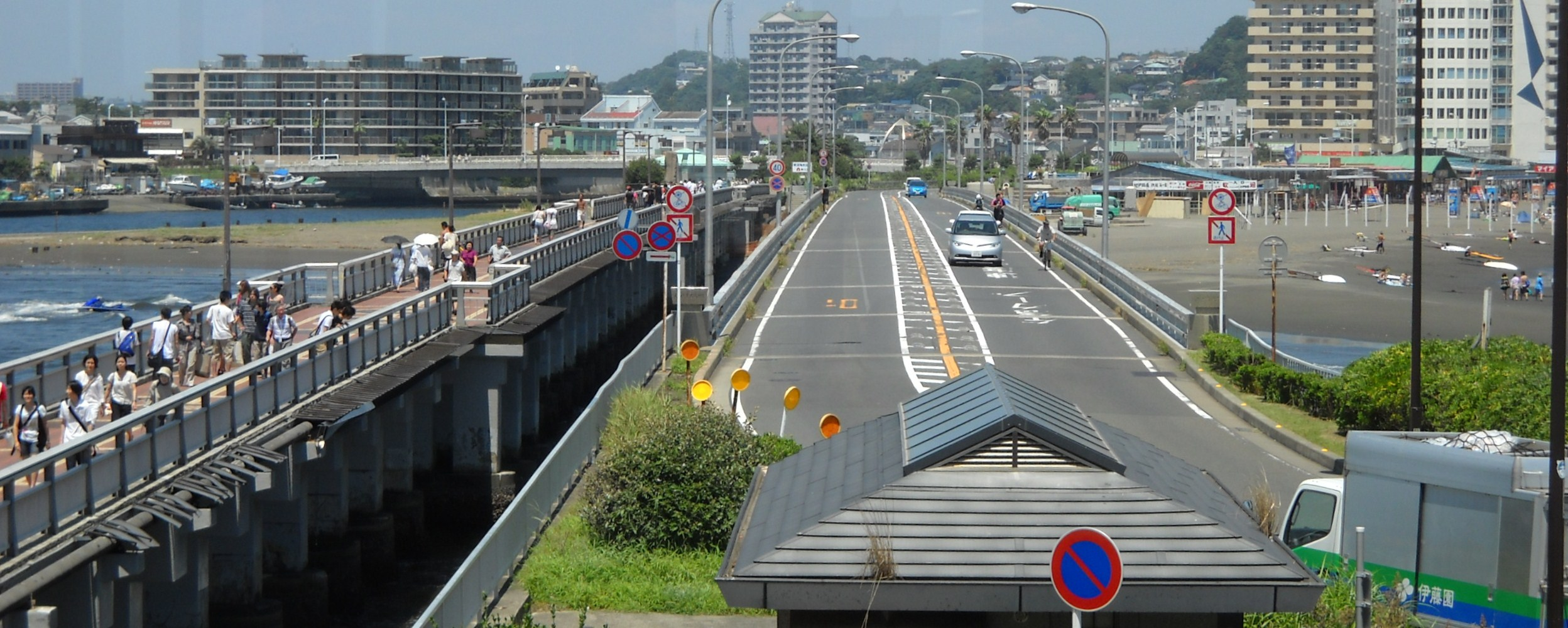 Kanagawa prefectural road route 305, Fujisawa city, Kanagawa pref., Japan